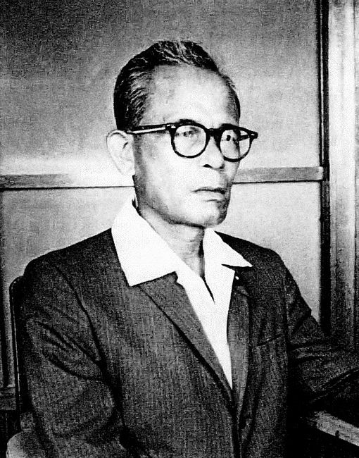 Koichi Taira